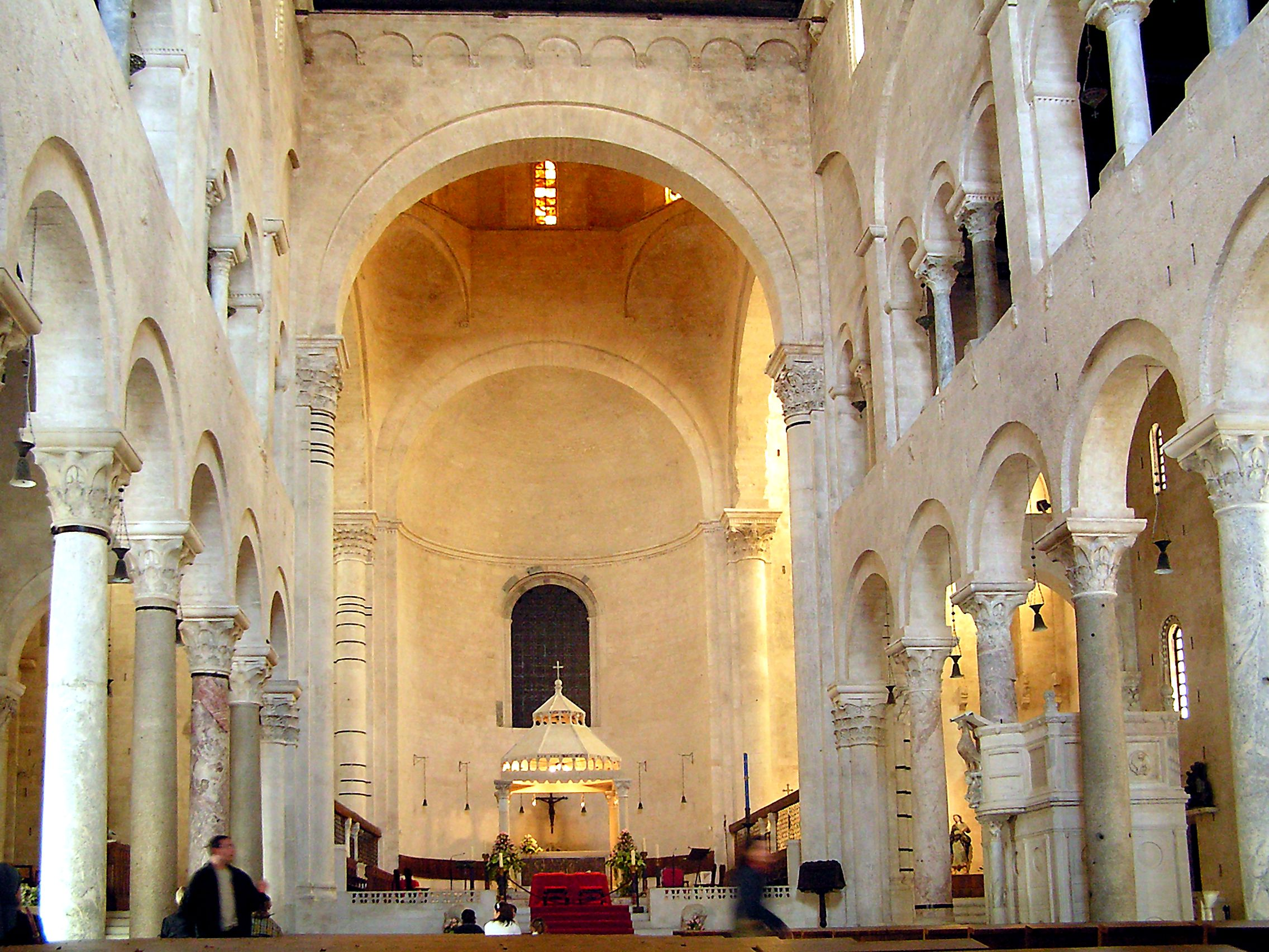 Inside cathedral of S. Sabino in Bari, Italy